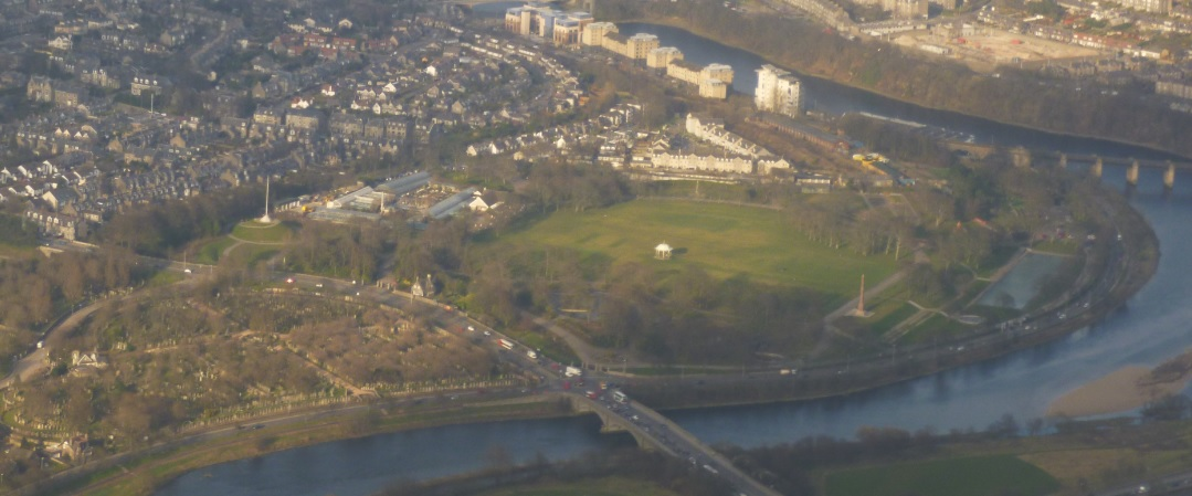 Duthie Park from the Air, Ferryhill, Aberdeen, Scotland, UK